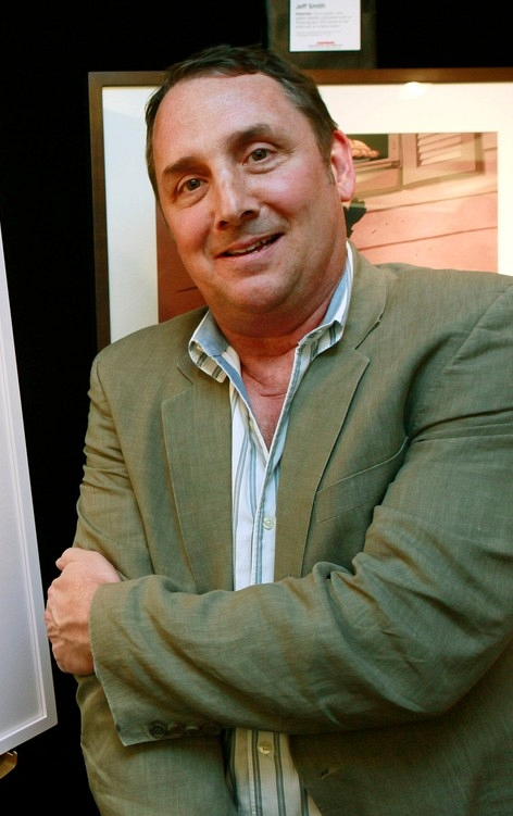 Bestselling author-artist David Shannon in New York, Thursday, May 5, 2011. More info is at